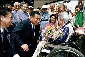 Prime Minister Yoshirō Mori and Minister Yūya Niwa talking to an elderly woman.